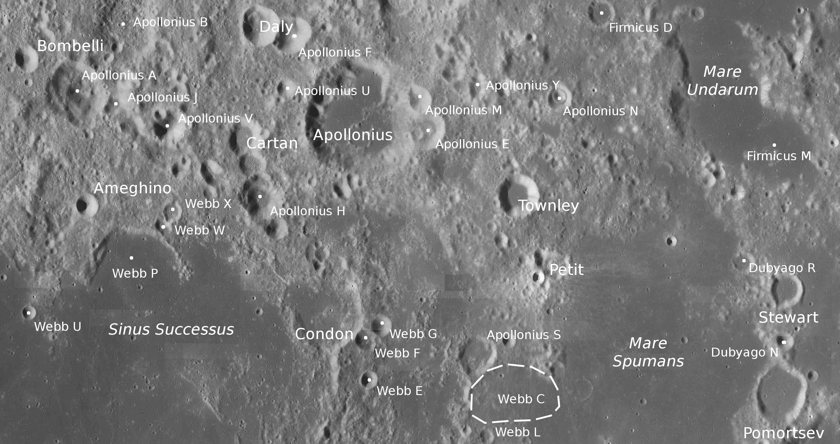 Crater Apollonius, Sinus Successus and Mare Spumans (detail of LRO - WAC global moon mosaic; Mercator projection)